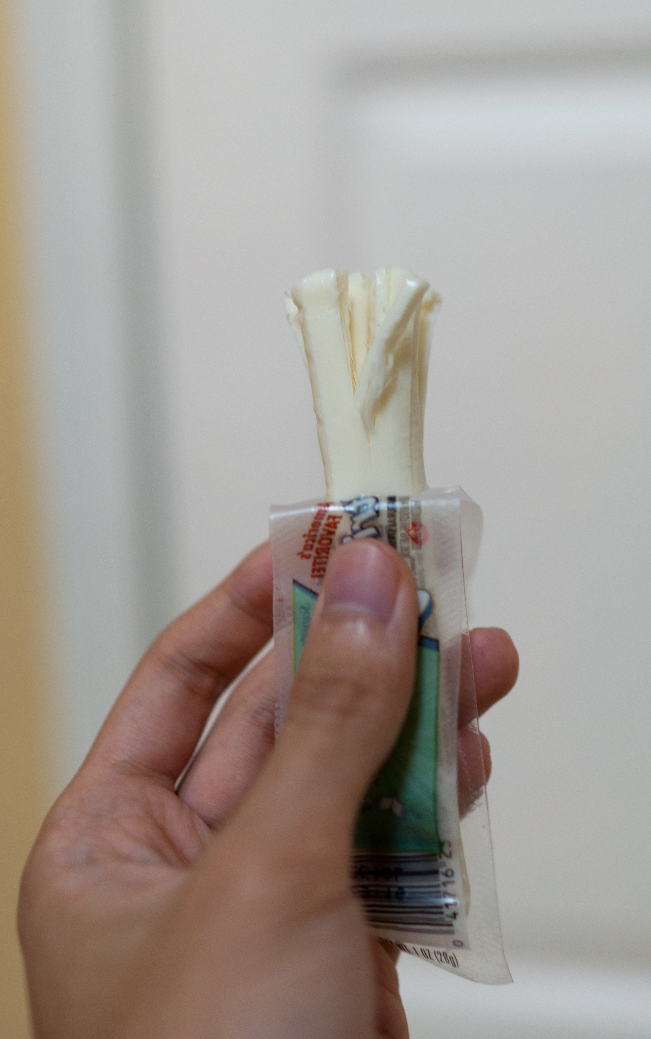 Day 160 / 365 Nothing too exciting, but I'm just excited to eat string cheese -- something I haven't eaten in a while. Just a light snack before tonight's class.